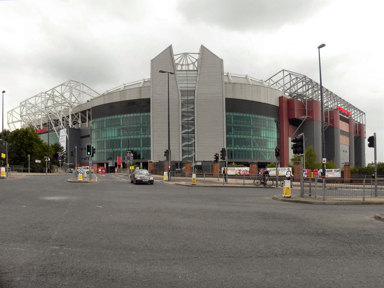 Looking across Trafford Park Road towards the stadium and Sir Matt Busby Way, from Water's Reach. With space for 75,957 spectators, Old Trafford has the second-largest capacity of any English football stadium after Wembley Stadium; the third-largest of any stadium in the UK, and the eleventh-largest in Europe.